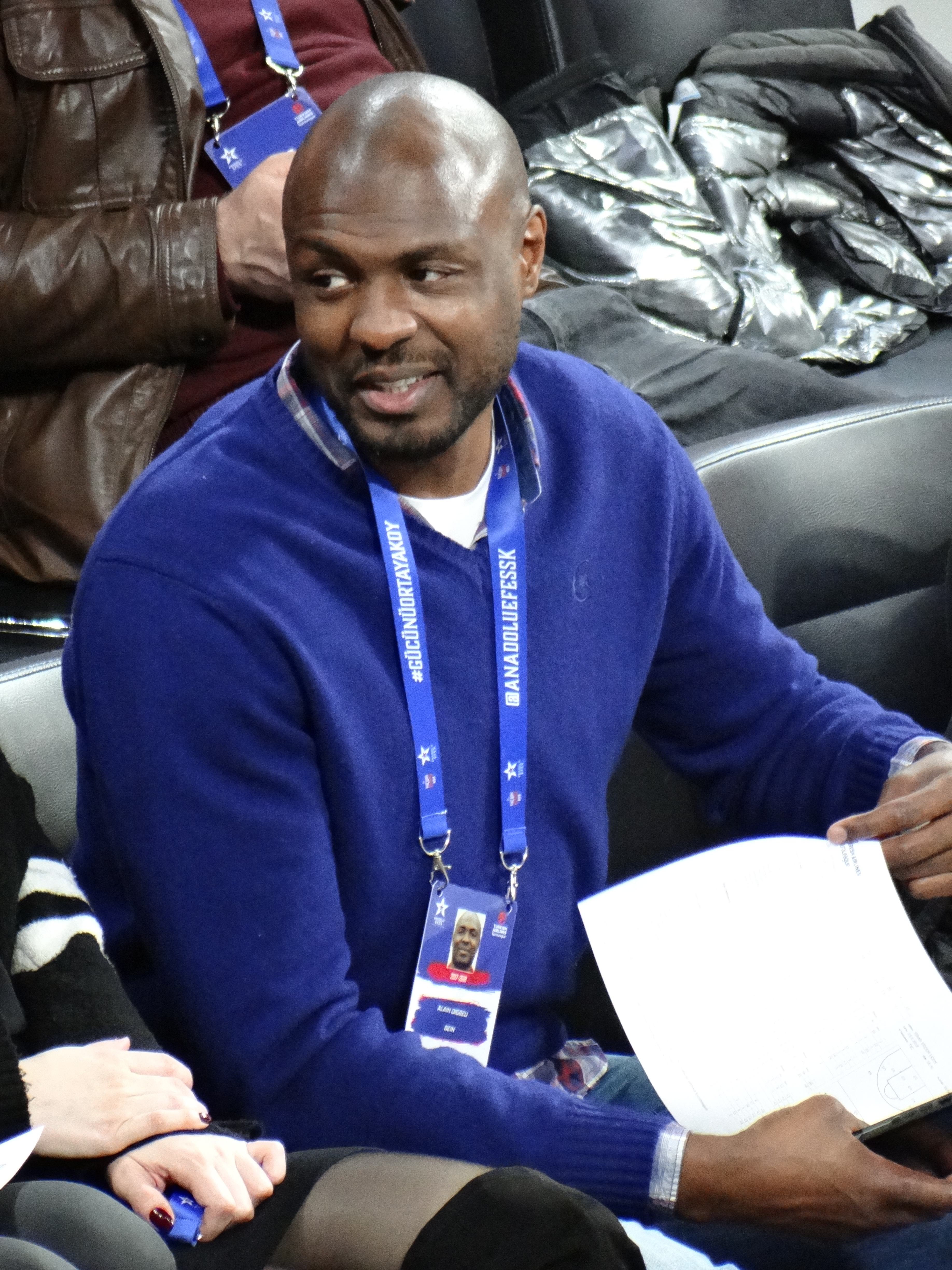 Alain Digbeu Anadolu Efes vs BC Žalgiris EuroLeague 20180223